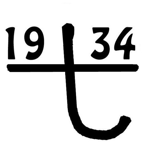 Sign of artist August Tschinkel (1905-1983)